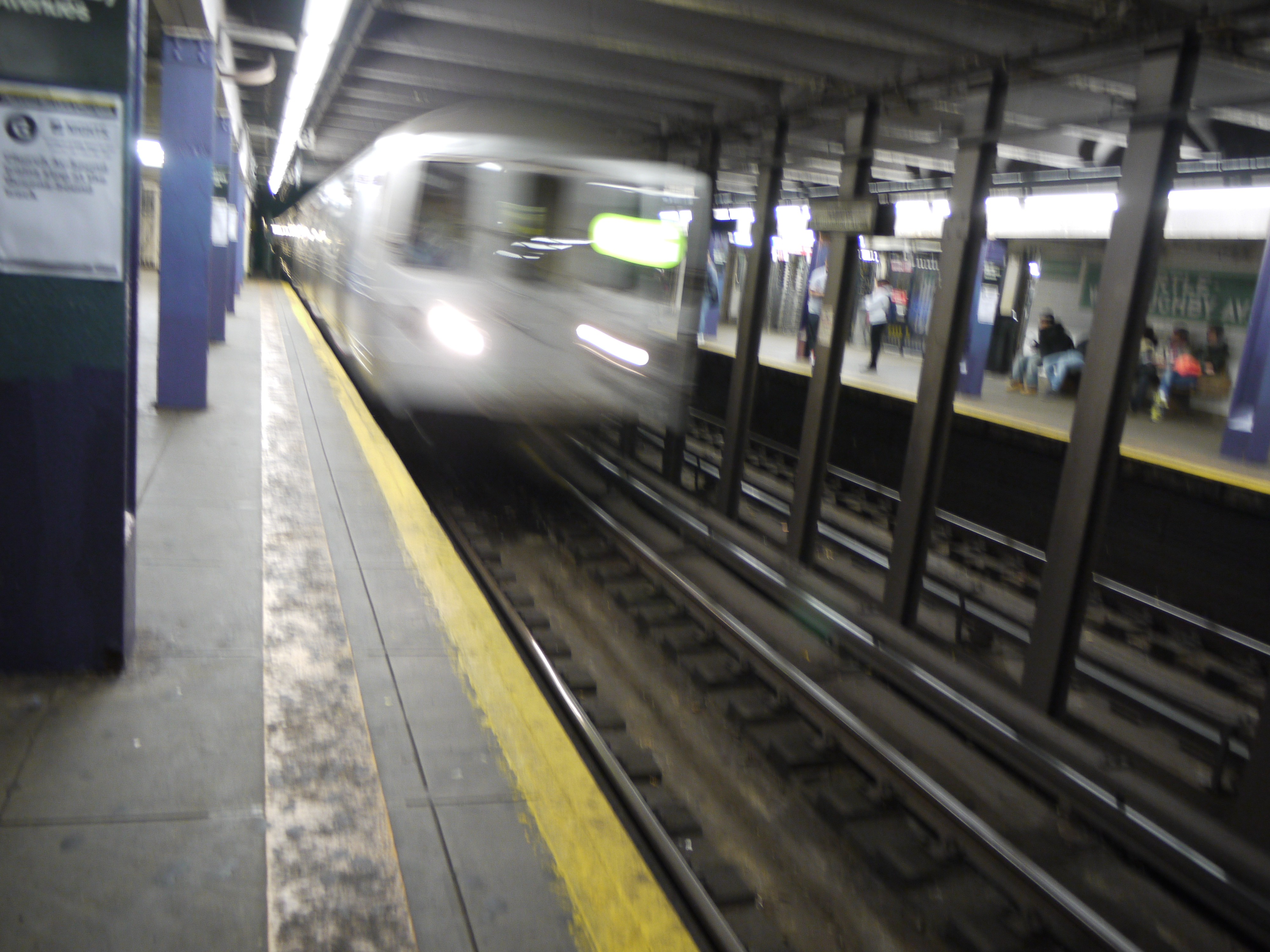 The G train